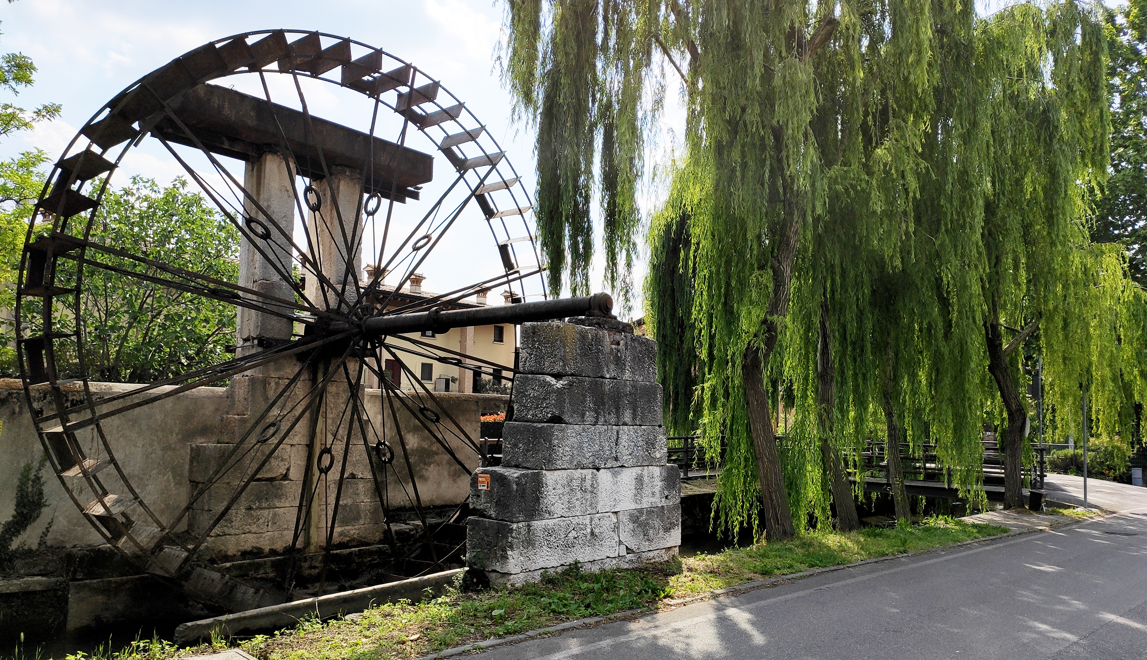 Iron wheel in Montirone